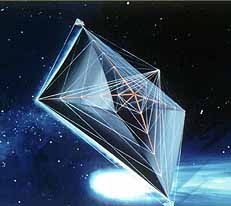 Artist's conception of a solar sail